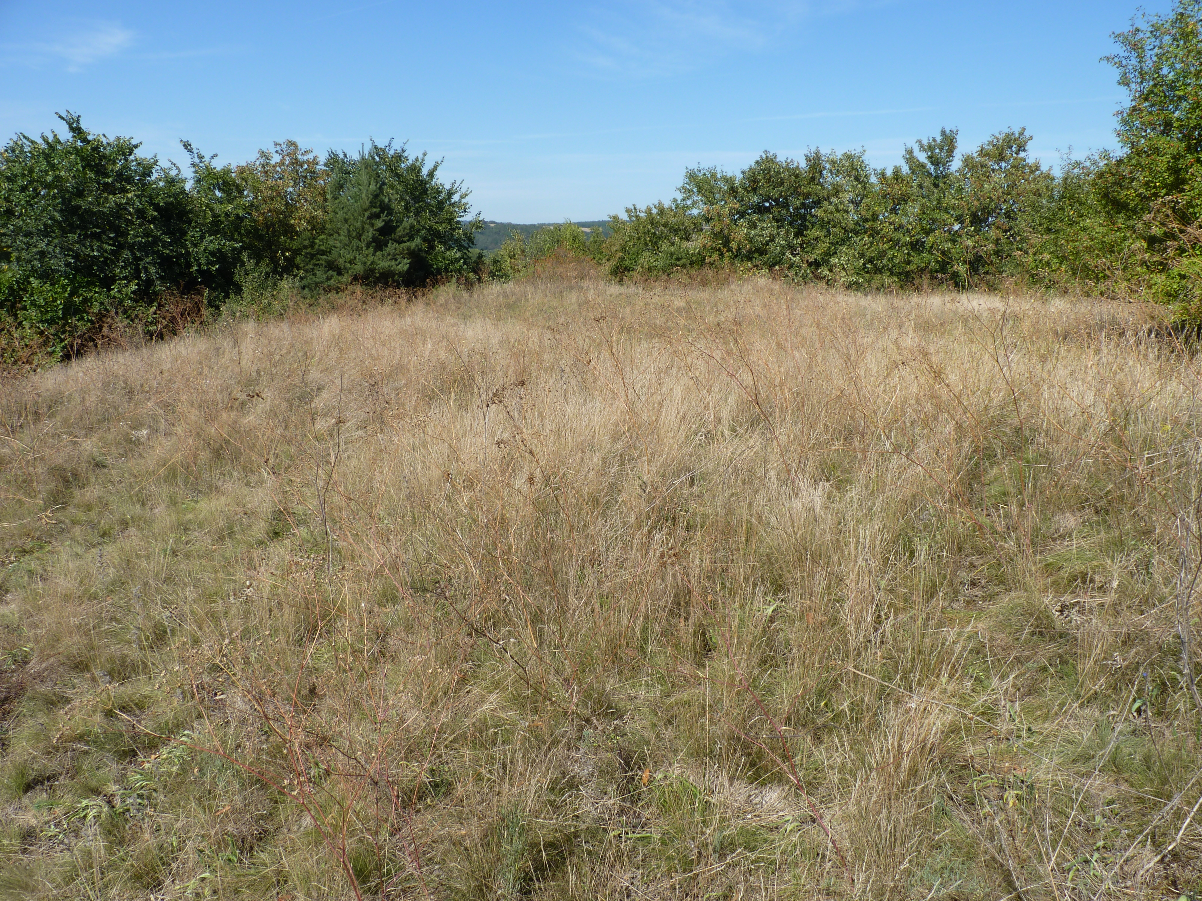 Návrší (natural monument). Brno-Country District, South Moravian Region, Czech Republic